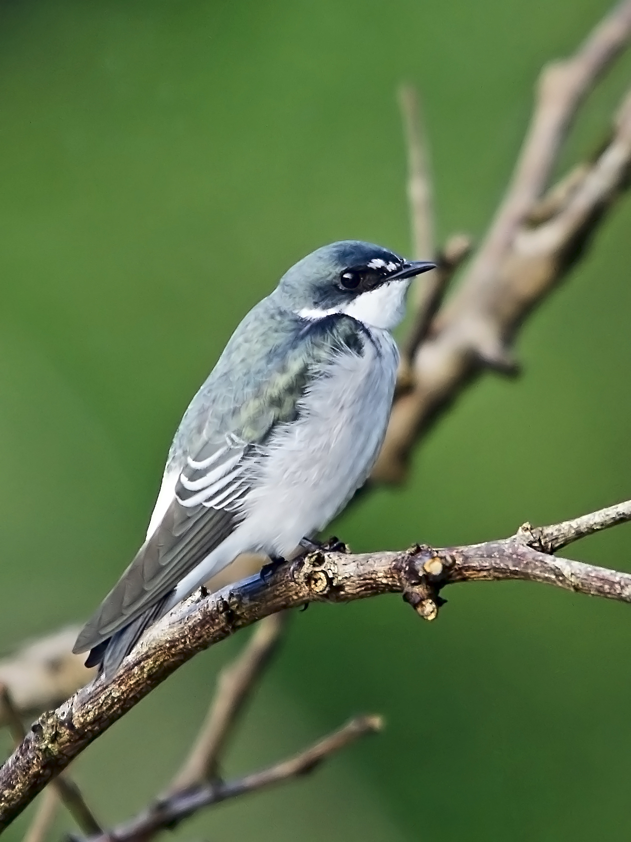 Mangrove Swallow at Tortuguero, Costa Rica